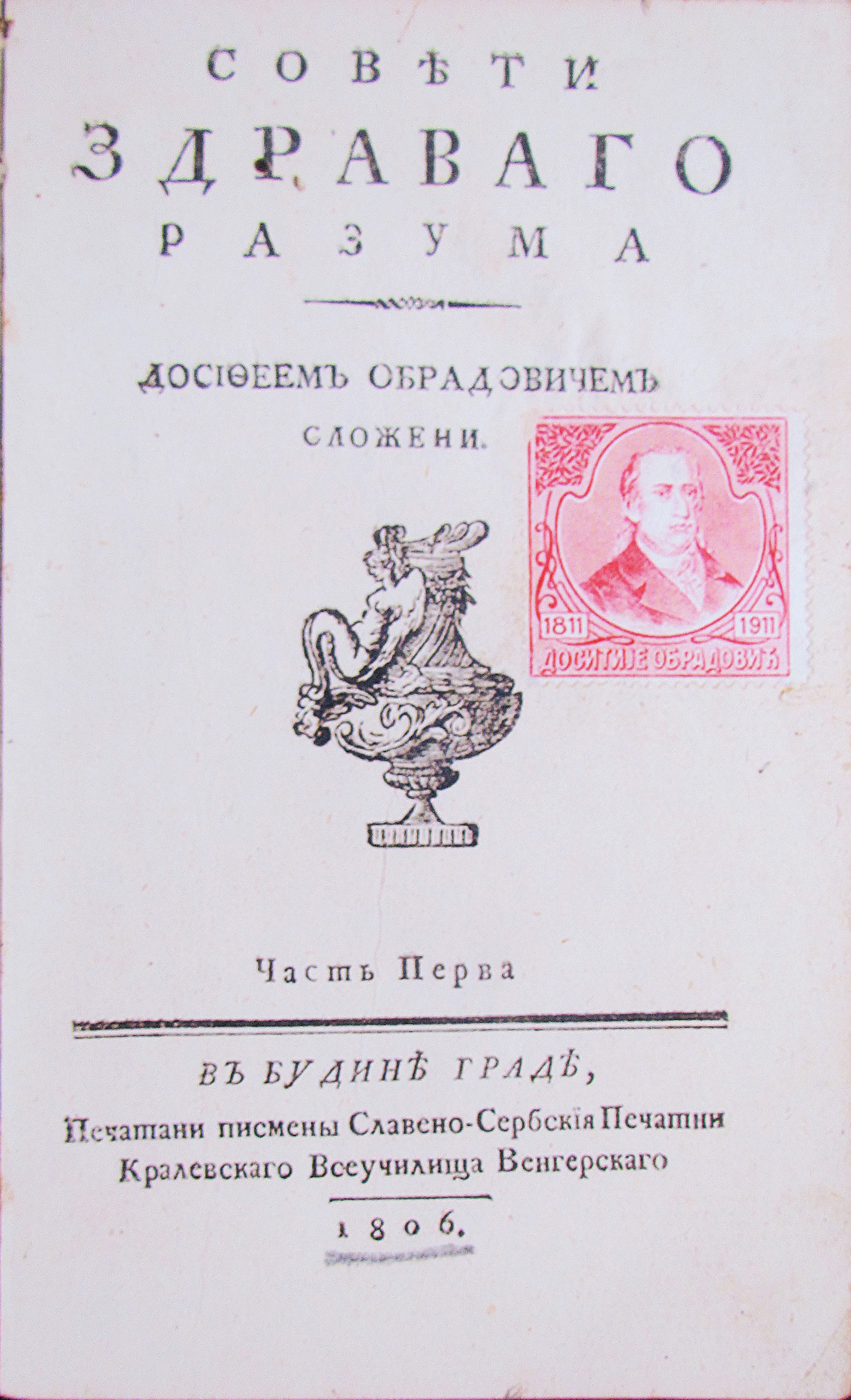 Dositej Obradović, Život i priključenija